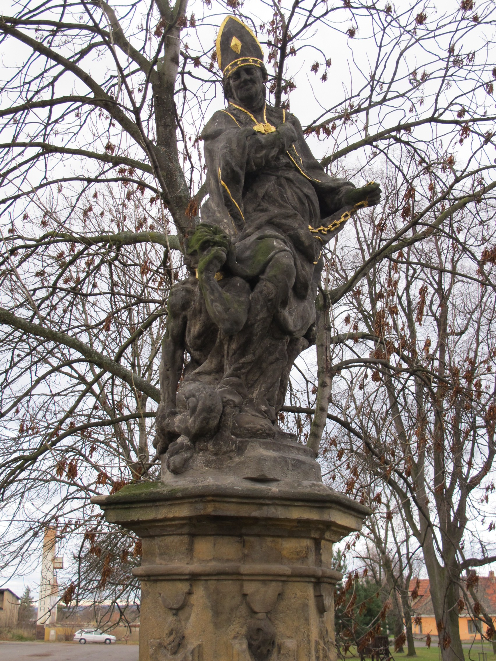 Statue of St. Procopius in Cítoliby (Czech Republic)